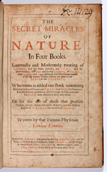 Title page of The Secret Miracles of Nature, translated from the Latin of Levinus Lemnius (1505–1568).